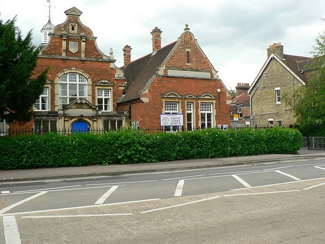 Castle Lower School, Goldington Road, Bedford When I attended this school in the late 1950's and early 60's, it was called Goldington Road Junior School. The Infants school was in a the building behind this one. I remember the headmaster was Mr Mackenzie, and my teacher in my last year was Miss Webb, who managed a class of about 50 children. The years below mine had smaller classes - Brickhill junior and infants schools opened and children were moved to the new school. One of the teachers moved as well, Mr Gunning.